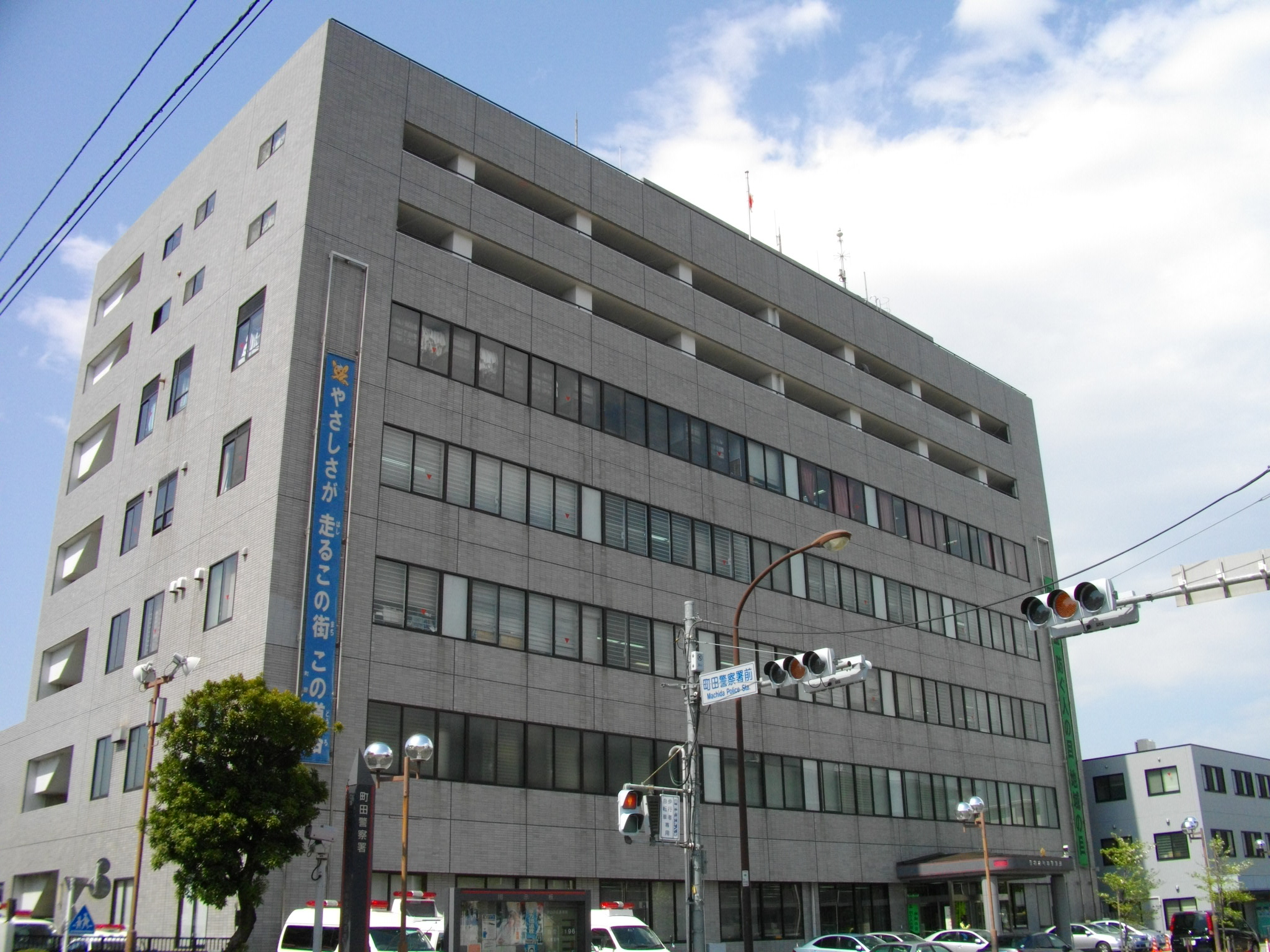 Machida Police Station